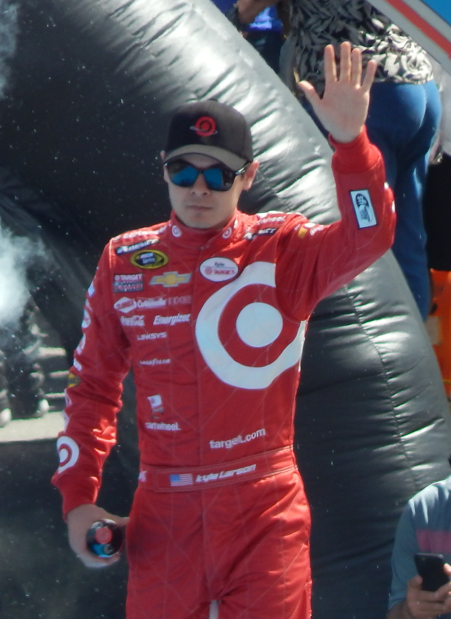 Kyle Larson being introduced at Daytona International Speedway.